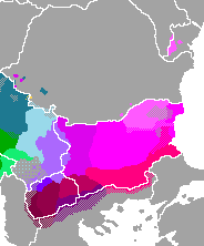 Balkan Slavic linguistic area